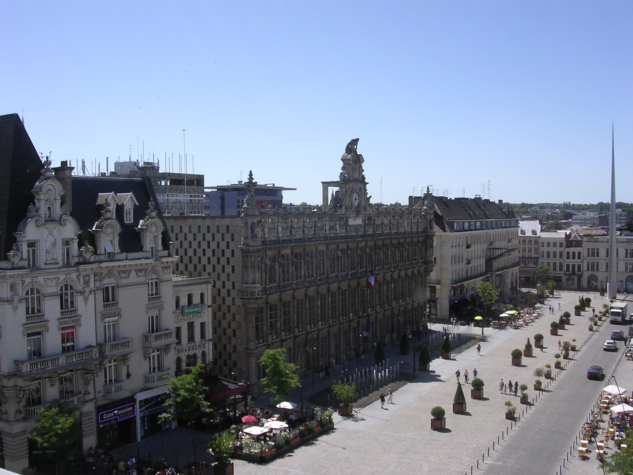 Place d'Armes